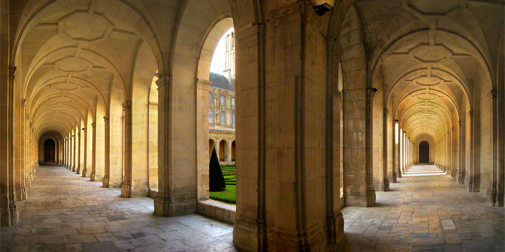 Abbaye-aux-Hommes, Caen, Calvados, Normandie, France. The cloister galleries.